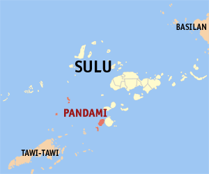 Map of the Sulu showing the location of Pandami